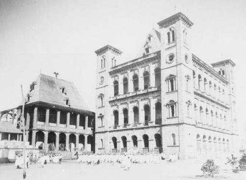 Manjakamiadana - Rova of Antananarivo - Queen's Palace